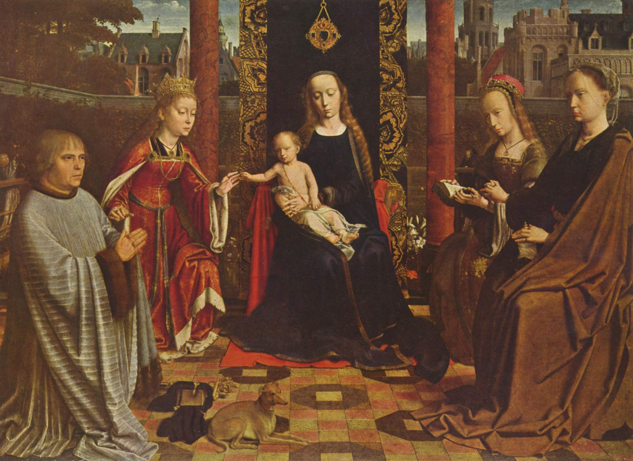 now called The Virgin and Child with Saints and Donor